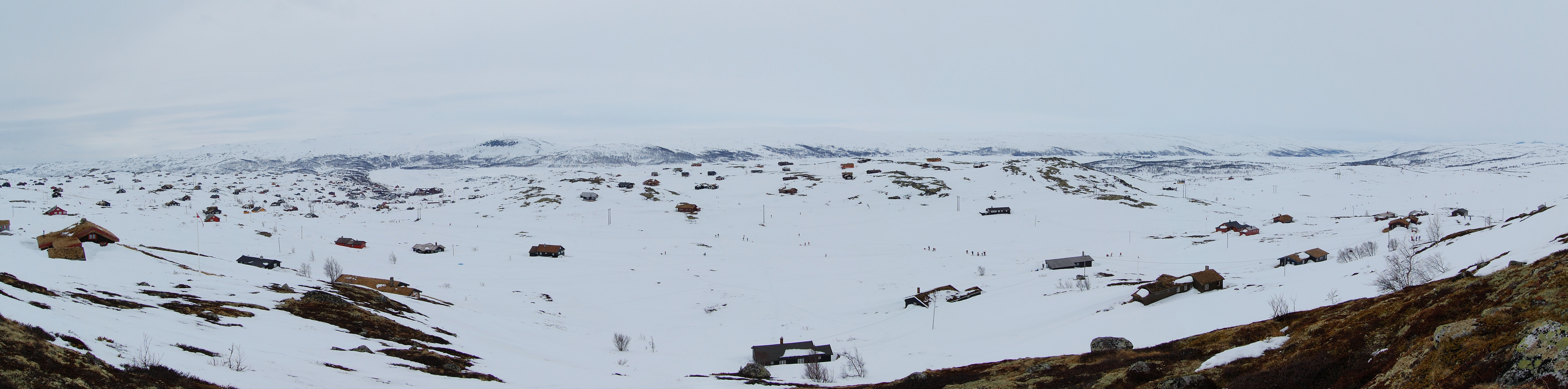 Panorama of Ustaoset, Norway.